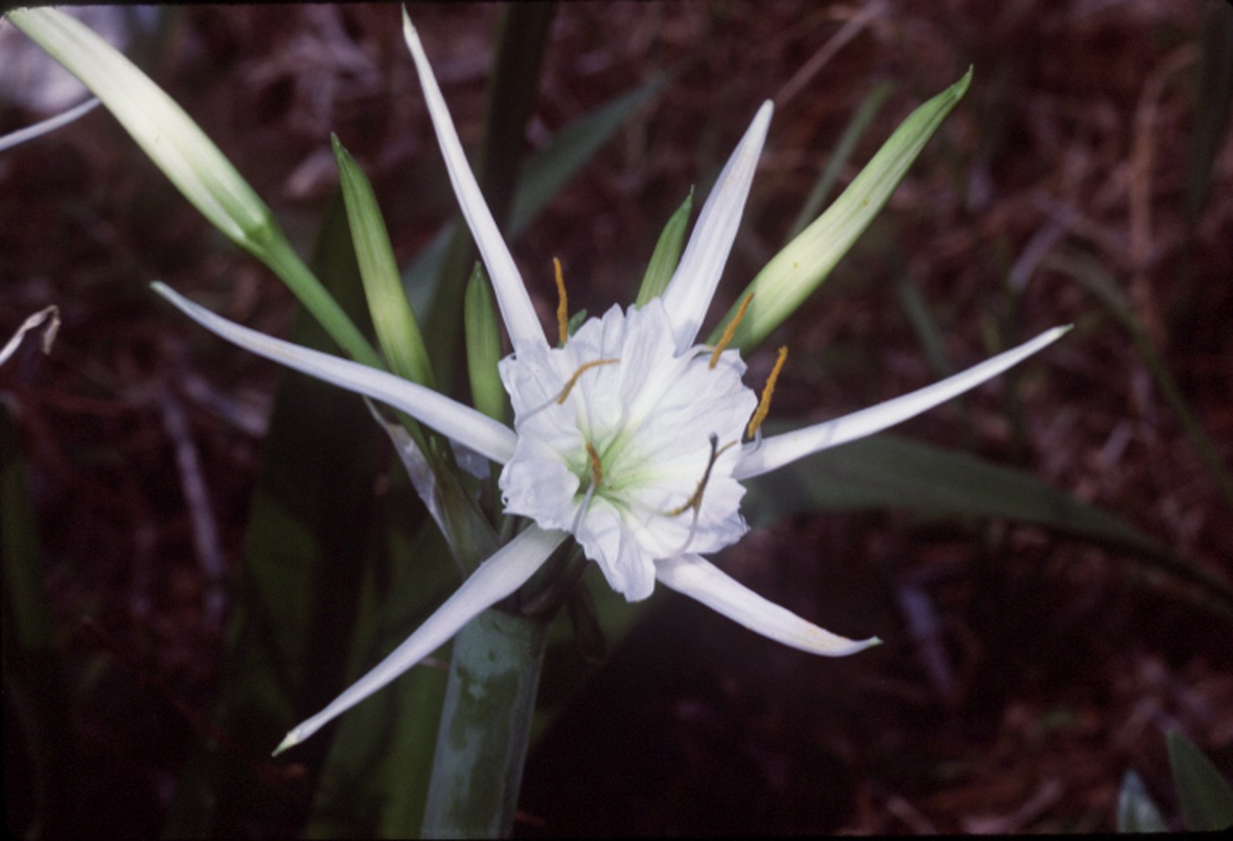 Midwest wetland flora: Field office illustrated guide to plant species. Midwest National Technical Center, Lincoln, NE.